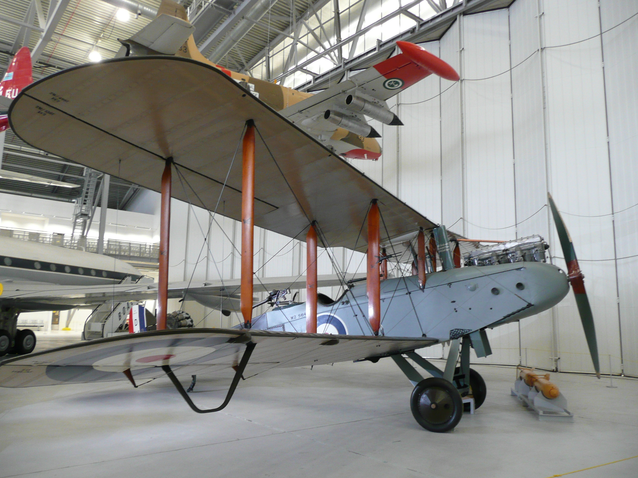 Airco/de Havilland DH9, Imperial War Museum Duxford in Duxford.